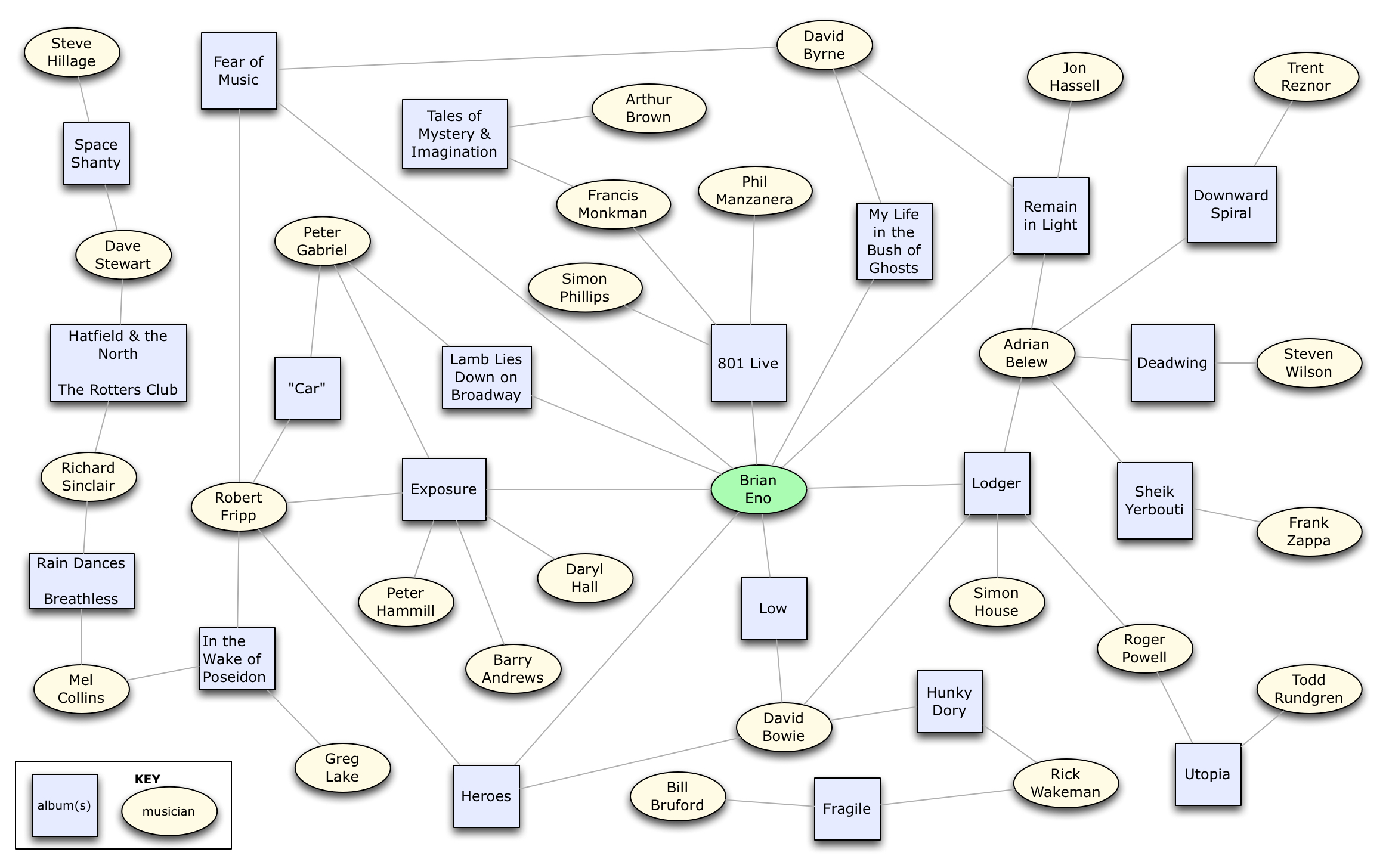 Brian Eno's connections to other progressive rock music artists